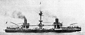 Photograph of The Italian battleship Francesco Morosini